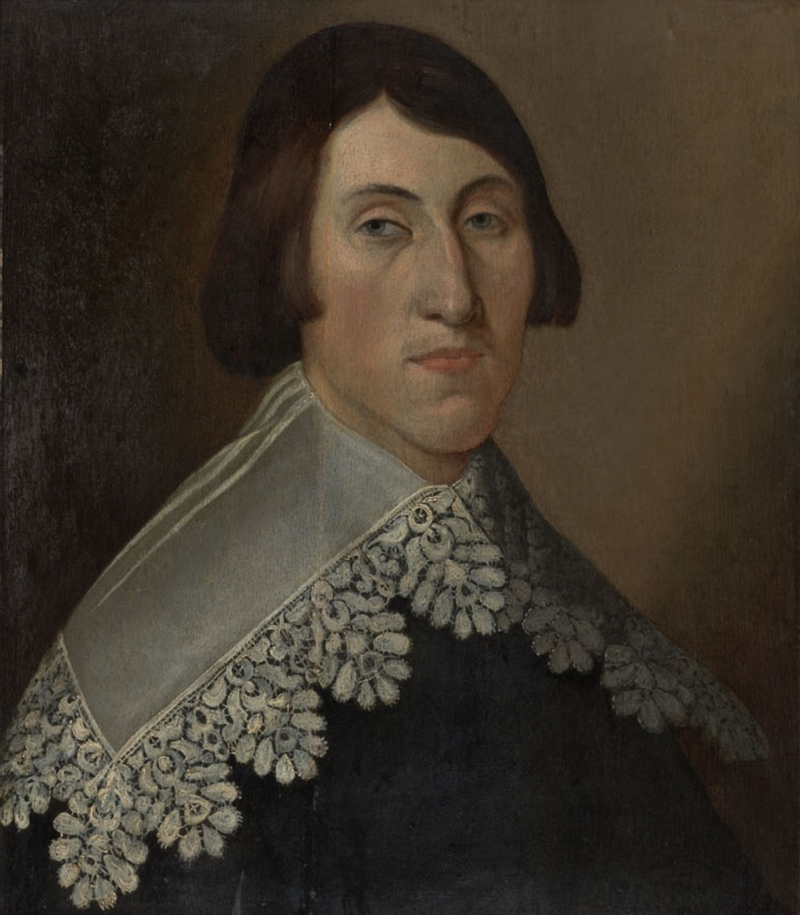 João Pinto Ribeiro (1590–1649), Portuguese judge and one of the Forty Conspirators of the Portuguese Restoration of Independence (1640).